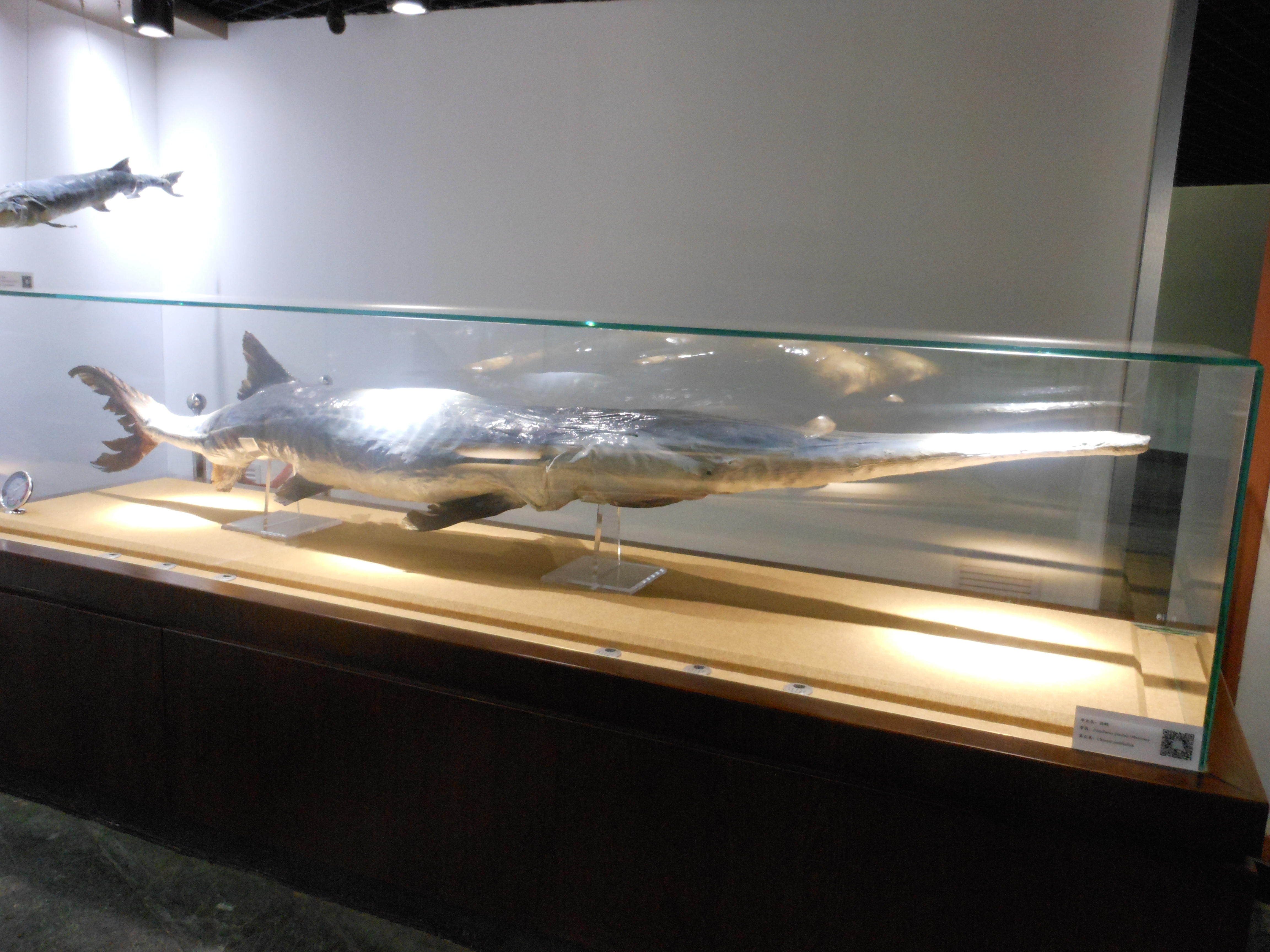 This is a specimen of a mature Psephurus gladius (Chinese Paddlefish), which is exhibited in the Museum of Hydrobiological Sciences, Wuhan Institute of Hydrobiology of Chinese Academy of Sciences. Detailed information of the specimen is little-known. A paper published in December 2019 suggested the Chinese Paddlefish was thought to be extinct sometime between 2005 and 2010 based on 210 sightings of Chinese paddlefish during the period 1981-2003, as well as the result that no individual of Chinese Paddlefish was spotted during the latest survey conducted on the Yangtze River during 2017-2018. Thus, it recommended the IUCN to reevaluate the species as EX "extinct" according to its criteria. It has caused widespread discussion online, and some news agencies falsely reported that it was formally declared "extinct" by experts.